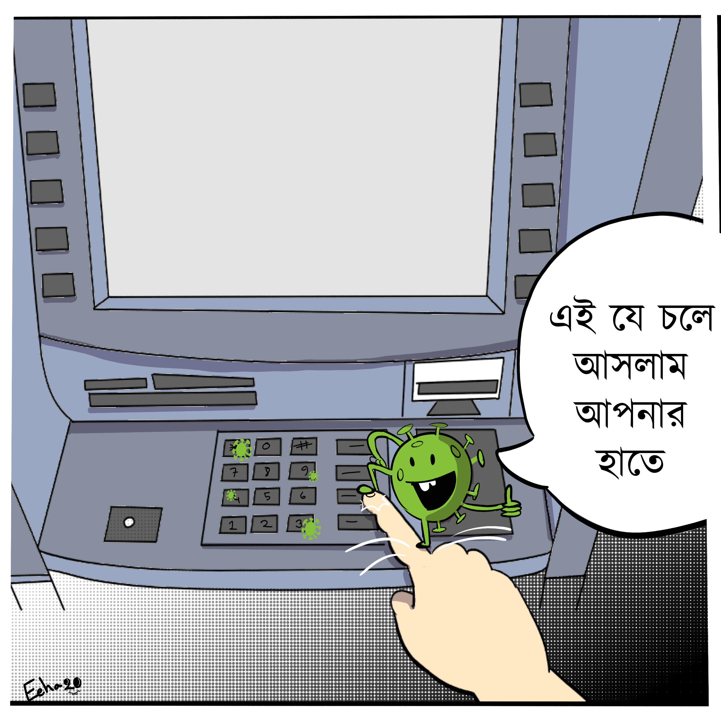 Artist, Visualization & dialogue : Anika Nawar Eeha Concept: Abdullah Al Mamun